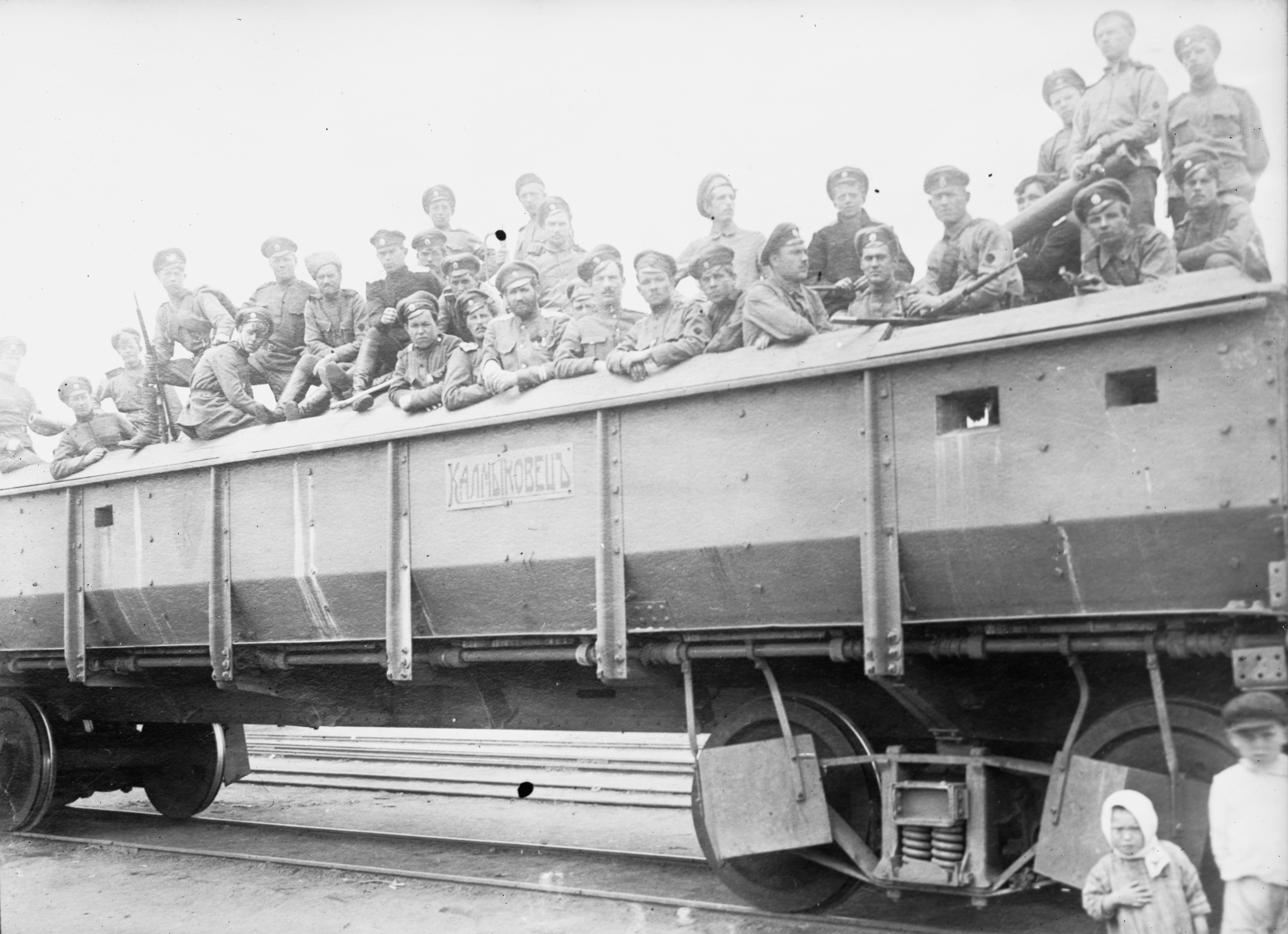 Armoured train "Kalmykovets" of the White Army during Civil War in Russia.